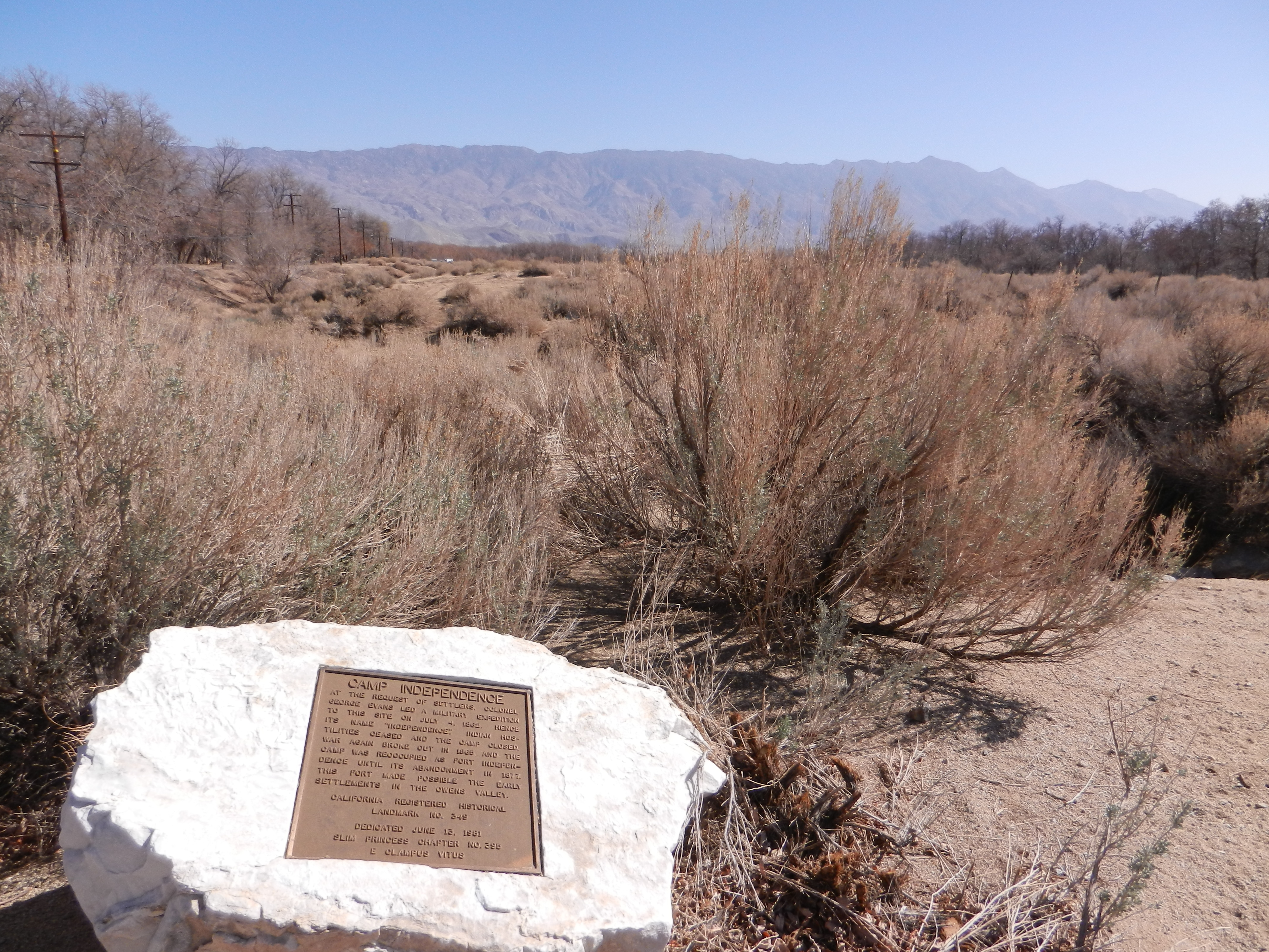 California Historical Landmark plaque at site of Camp Independence (active 1862-1877) — in the Owens Valley, eastern California. The Inyo Mountains are in the distance, to the east.